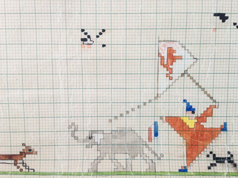 Werk van kunstenares Margaretha Verwey.